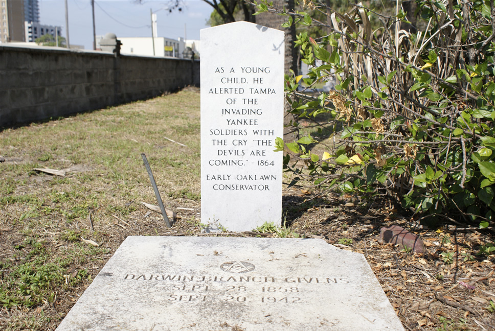 Marker at oaklawn cemetery, Tampa, Florida.